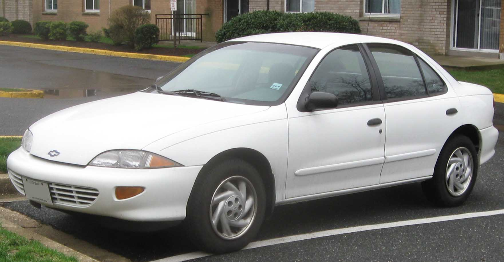 1995-1999 Chevrolet Cavalier photographed in College Park, Maryland, USA.